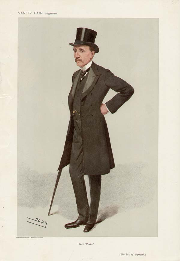 Men of the Day No.1009: Caricature of The Robert Windsor-Clive, 1st Earl of Plymouth. Caption reads: "Good Works"